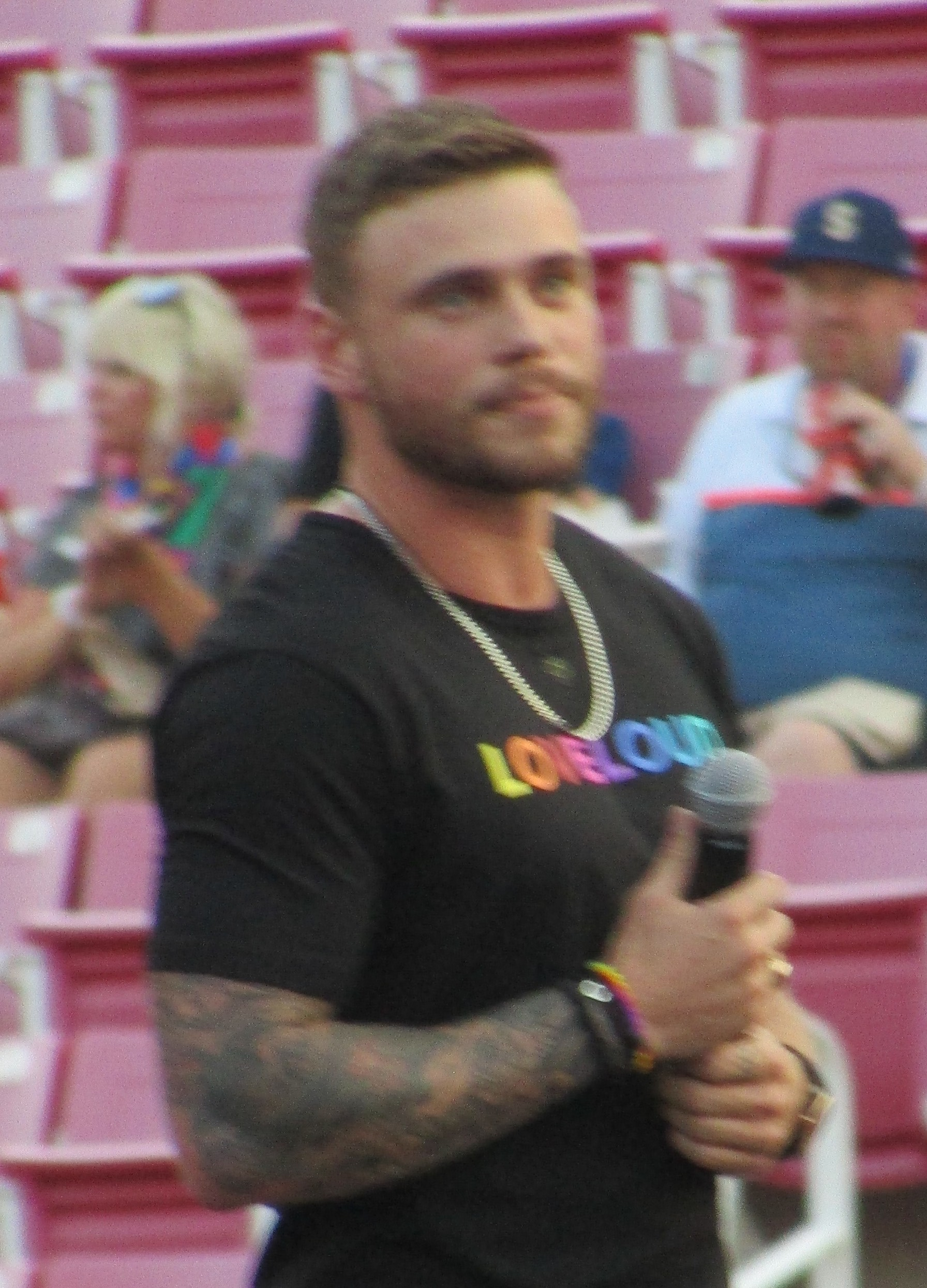 Gus Kenworthy performing at LoveLoud 2018.